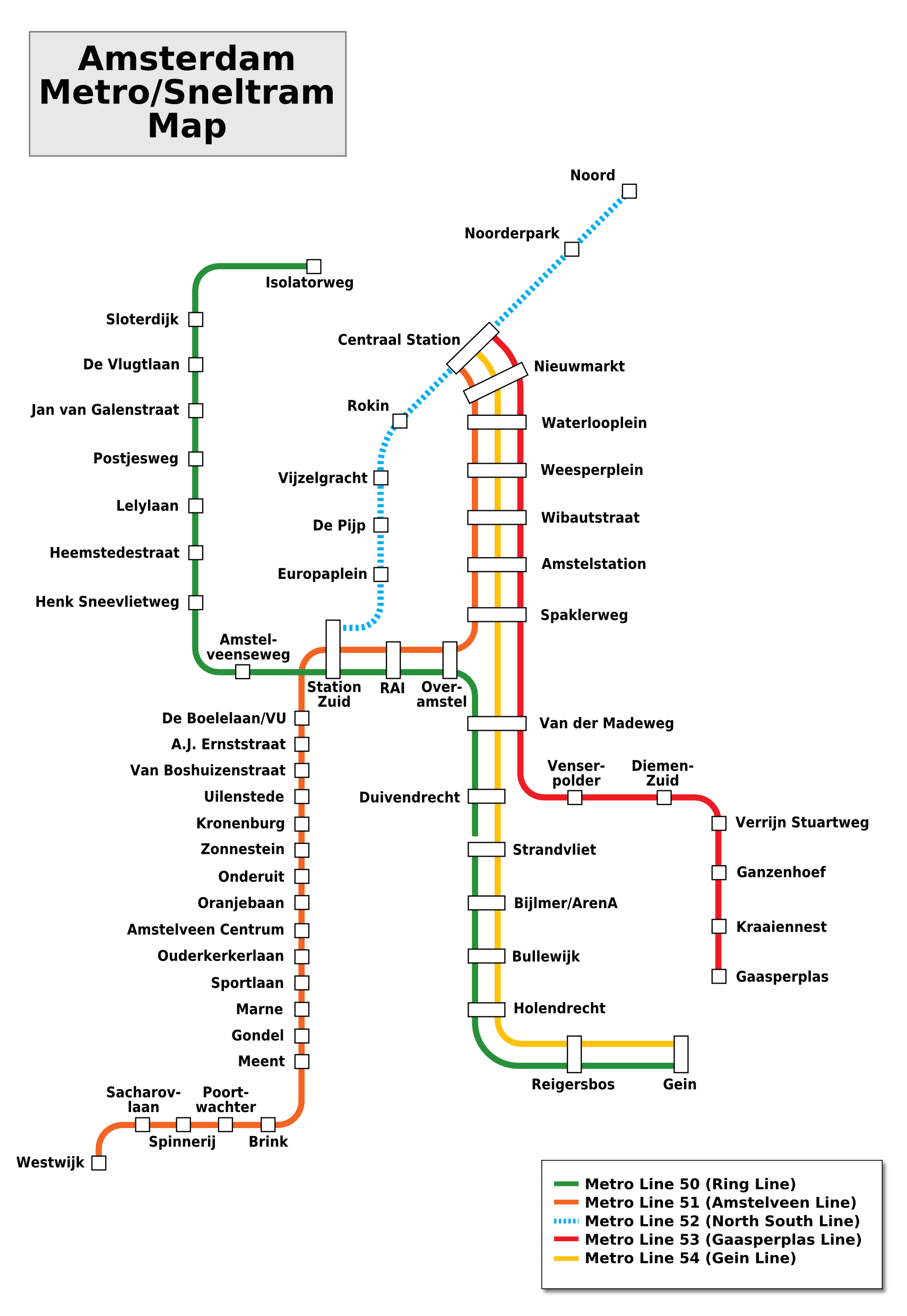 Map of Amsterdam Metro.